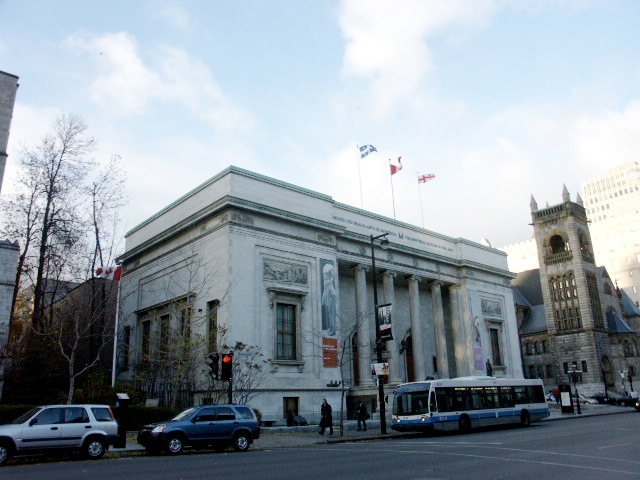 Musée des beaux-arts de Montréal, building from 1912, Montreal.